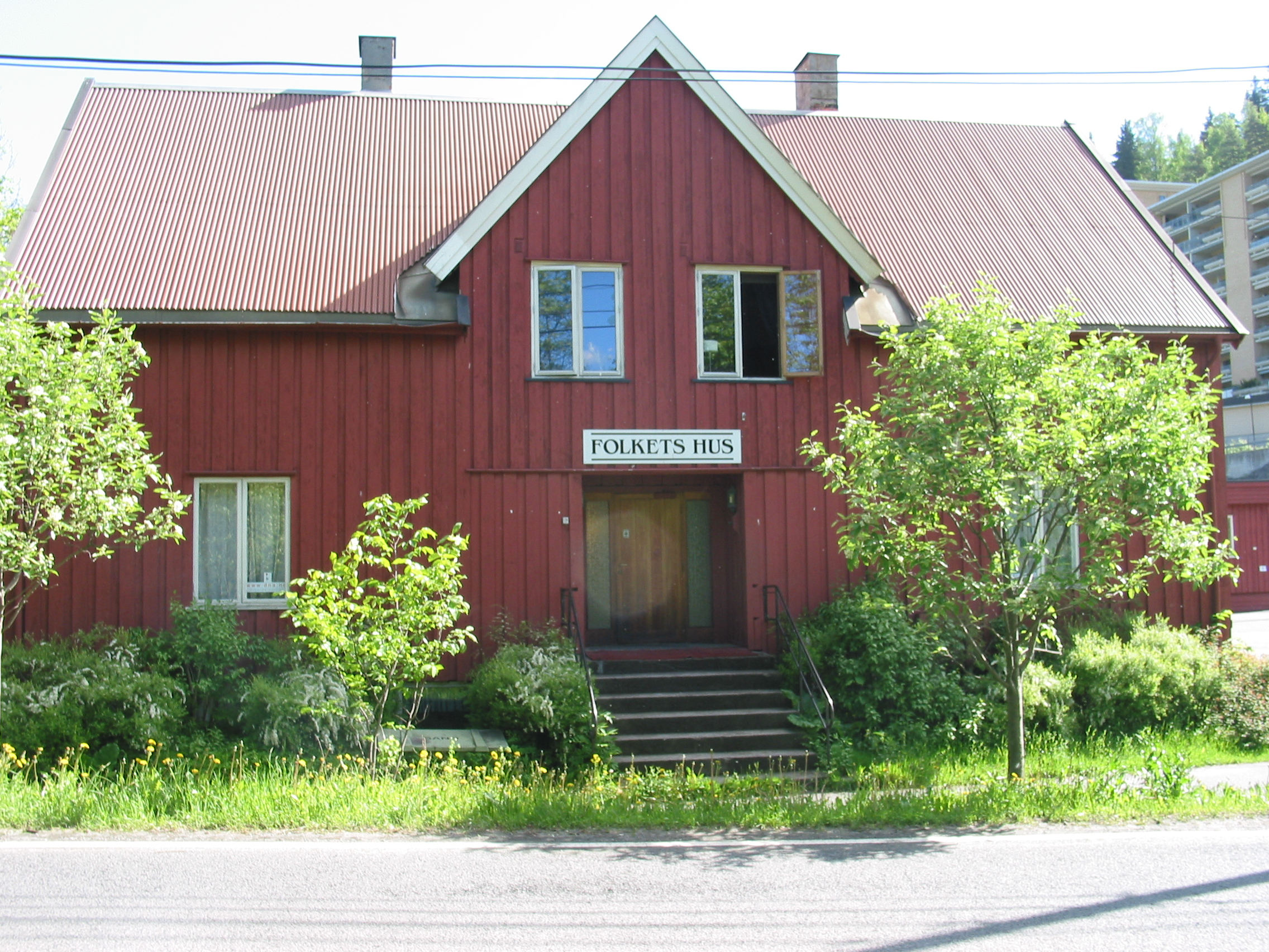 Folkets hus in Skytterdalen, Sandvika.